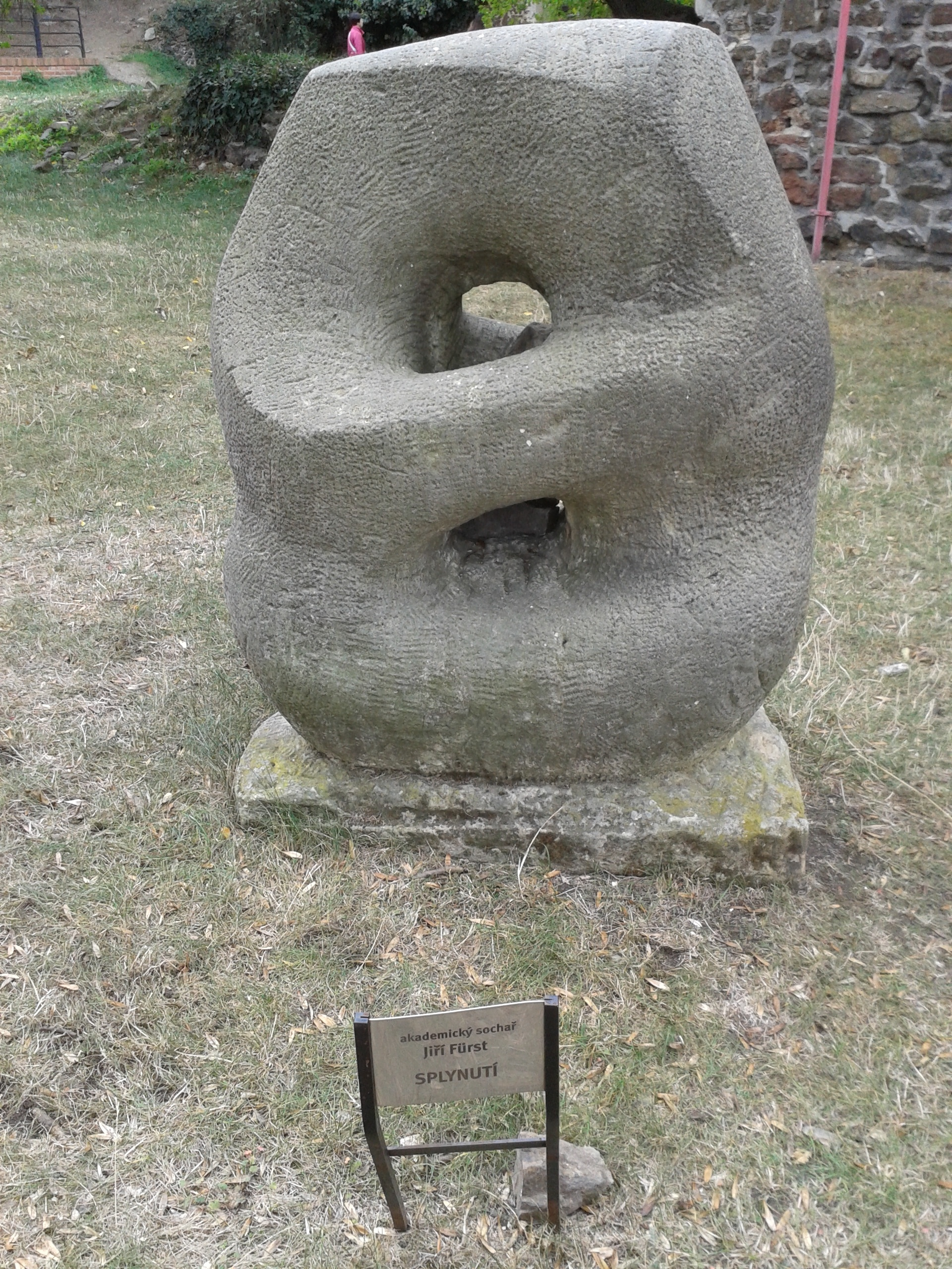 Statue in a public space; Location: Czech Republic, Prague Vyšehradské sets; author: Czech sculptor (Jiří Fürst) George Fürst (* 1954); Name: SPLYNUTÍ (FUSION)